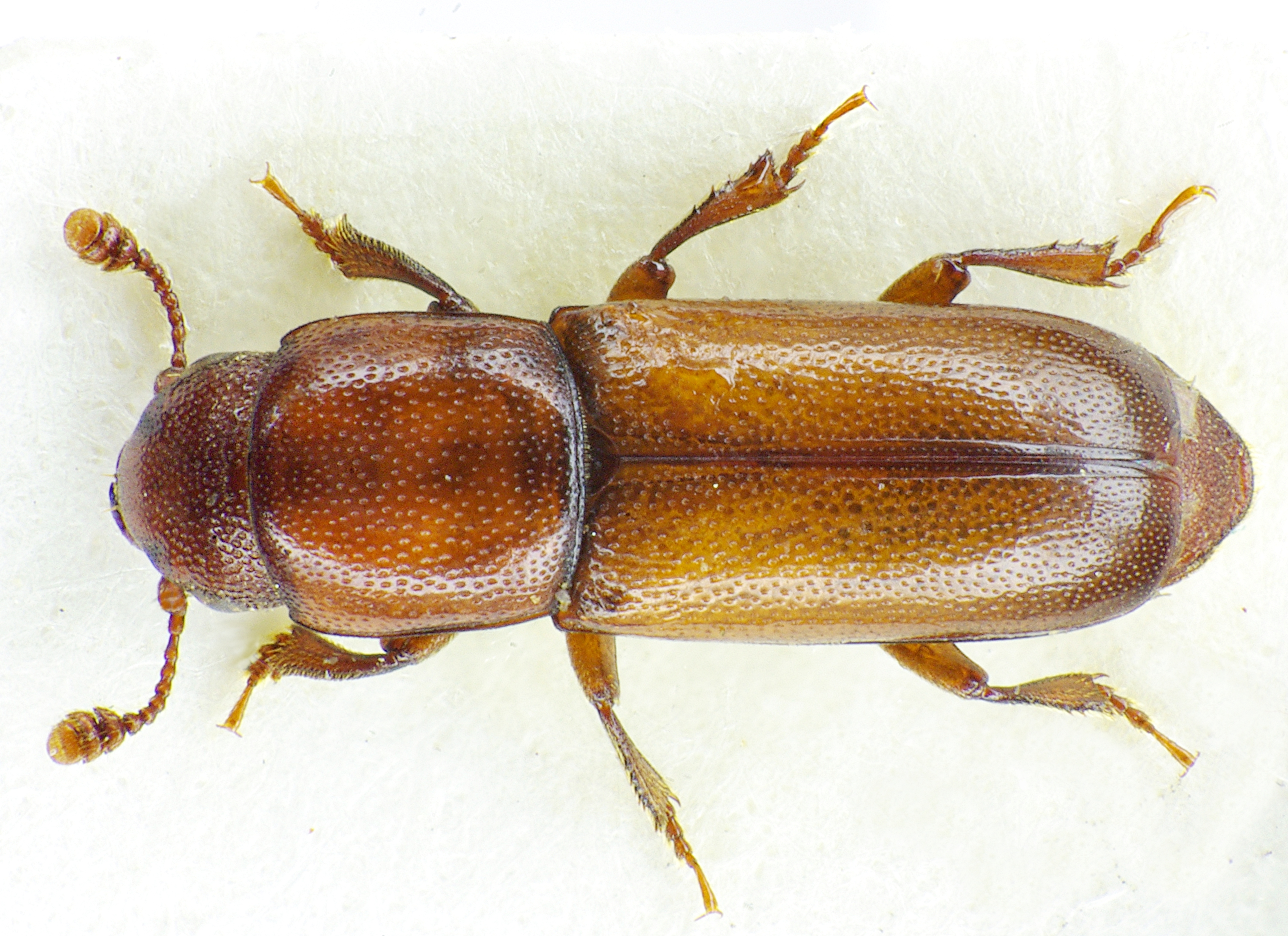 Pityophagus ferrugineus from Southern Germany near Tuttlingen at 2002-06-16